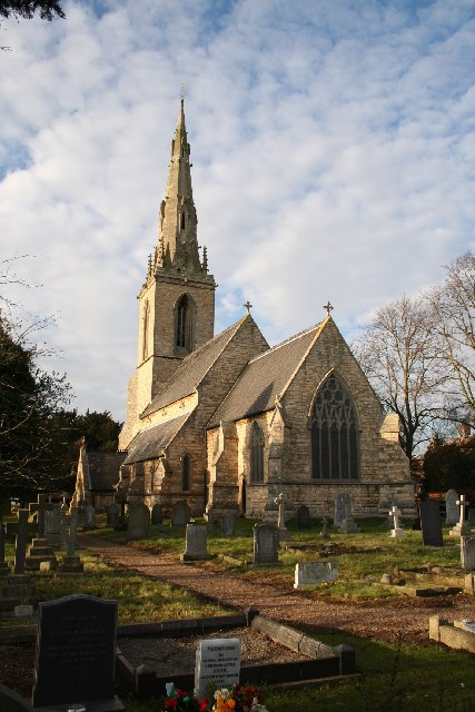 St.Mary's church, Carlton-on-Trent. By Nottingham architect G.G.Place in 1851.